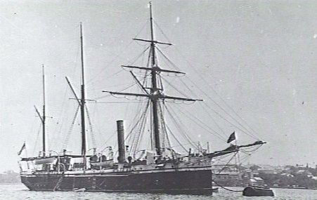 AWM caption : "SYDNEY, NSW. STARBOARD BOW VIEW OF THE SCREW GUNBOAT HMS LIZARD. NOTE THE TWO 4 INCH GUNS ON THE FORECASTLE. TWO MORE CAN BE SEEN ON SPONSONS AMIDSHIPS AND AFT."